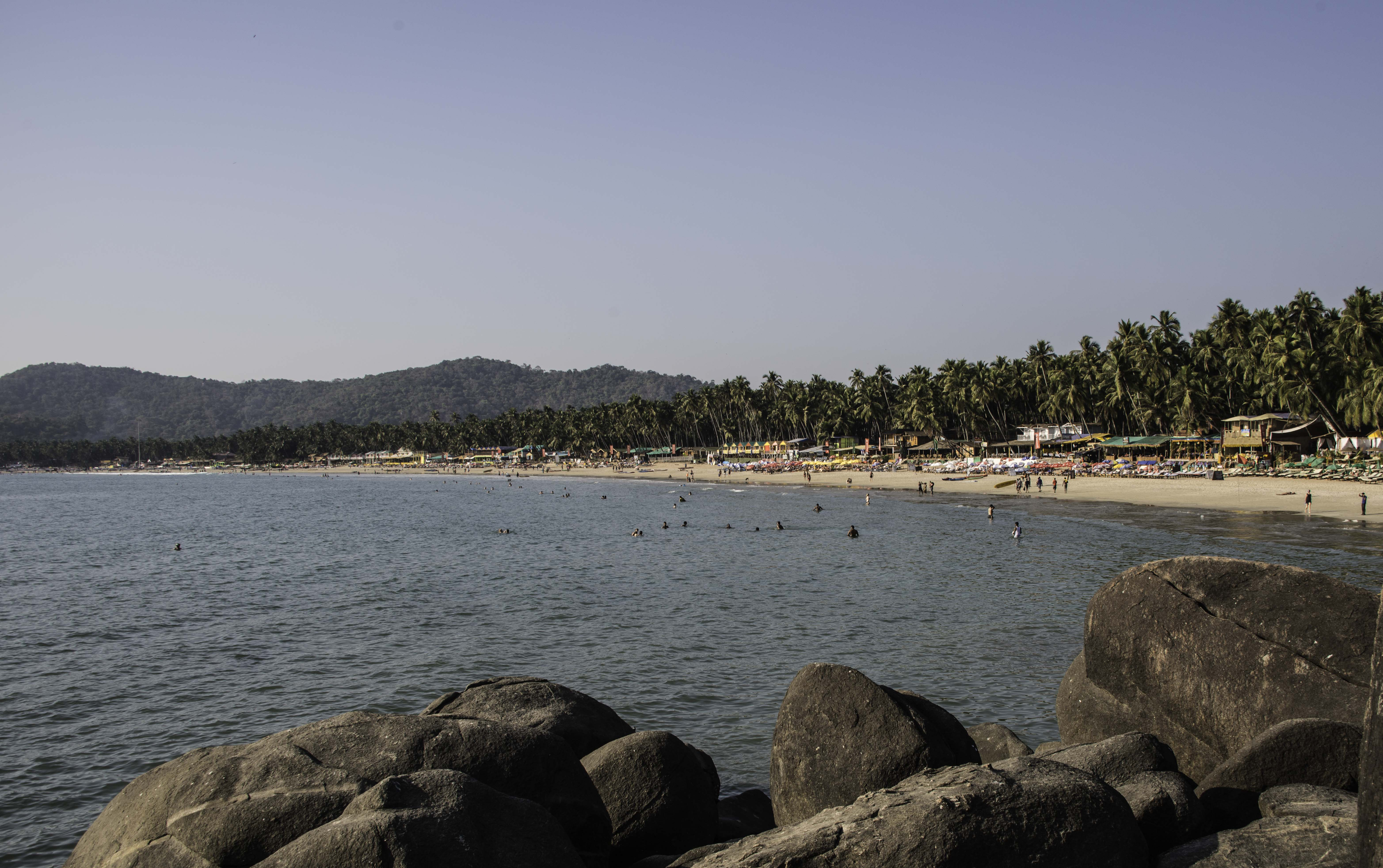 View of Palolem beach from left side